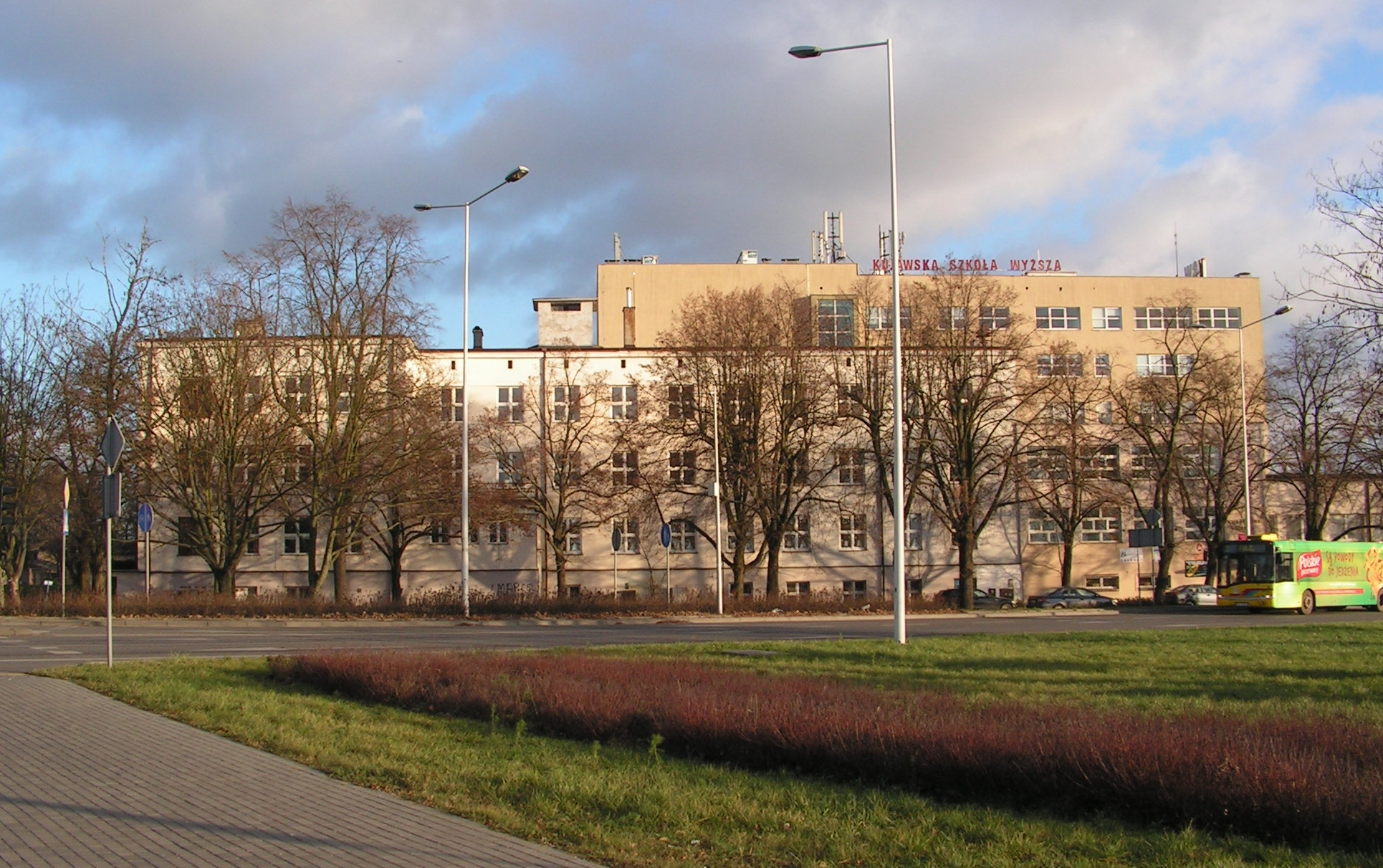 Kujawska Szkoła Wyższa (Kuyavian High School, Kuyavian University) complex at Okrzei Street in Włocławek (Collegium Novum and Collegium Maius).